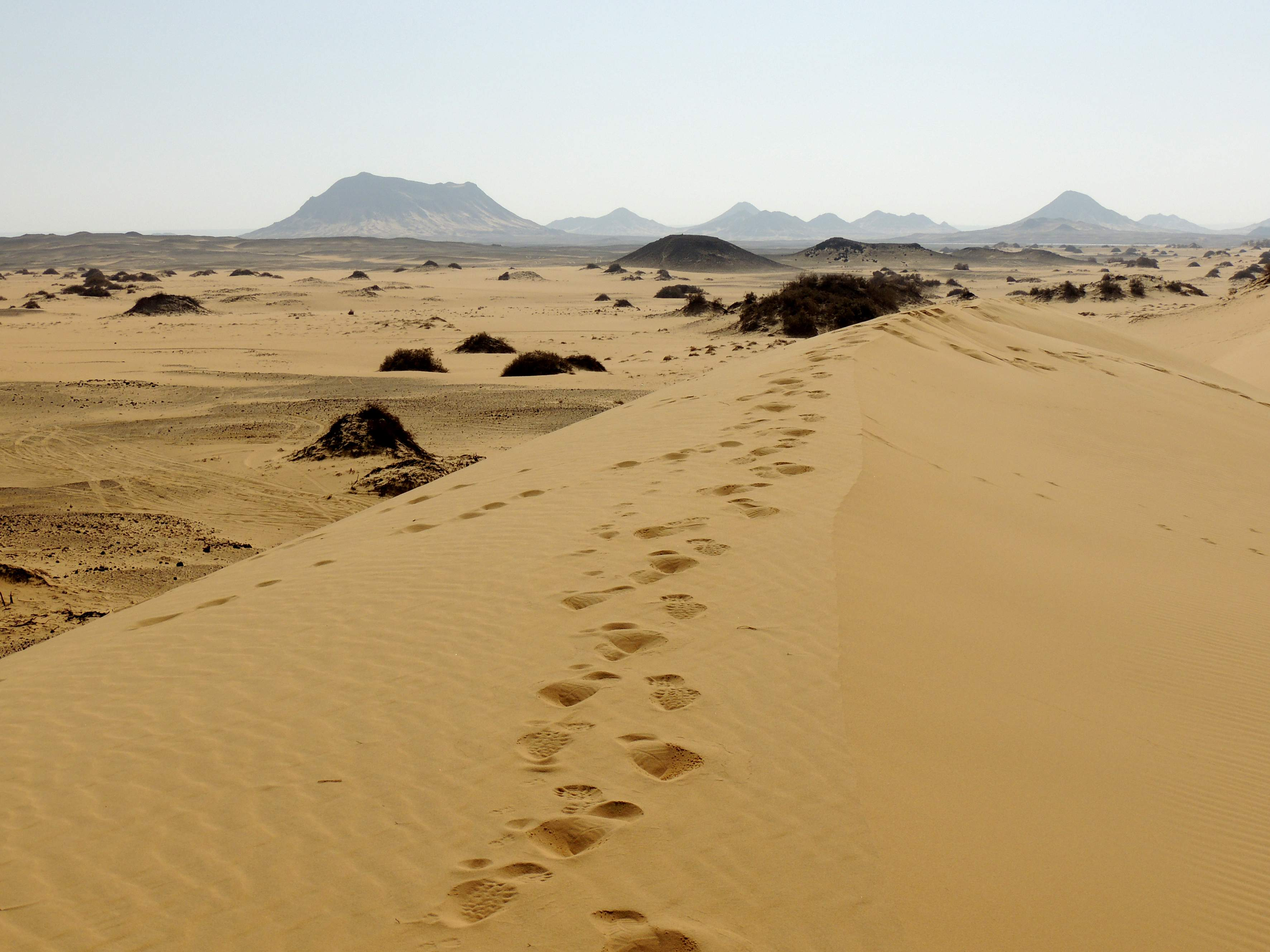 Al Farafrah, New Valley Governorate, Egypt